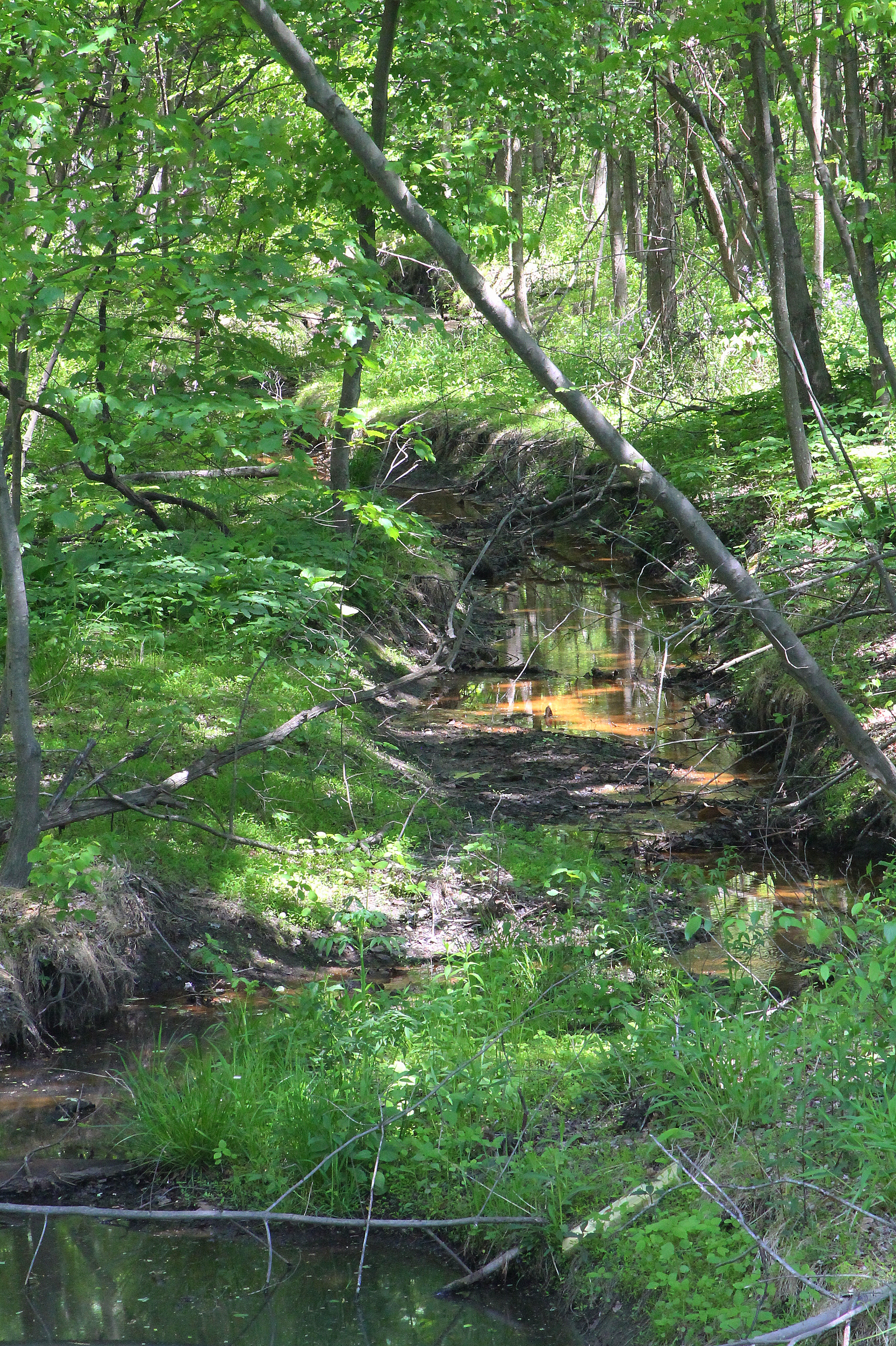 Nanticoke Creek, a tributary of the Susquehanna River in Luzerne County, Pennsylvania, looking downstream.